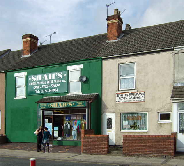 Shop & Mosque, West Street, Scunthorpe. Shah's Schoolwear shop and the Scunthorpe Jamia Mosque & Madrassa on West Street, Scunthorpe.